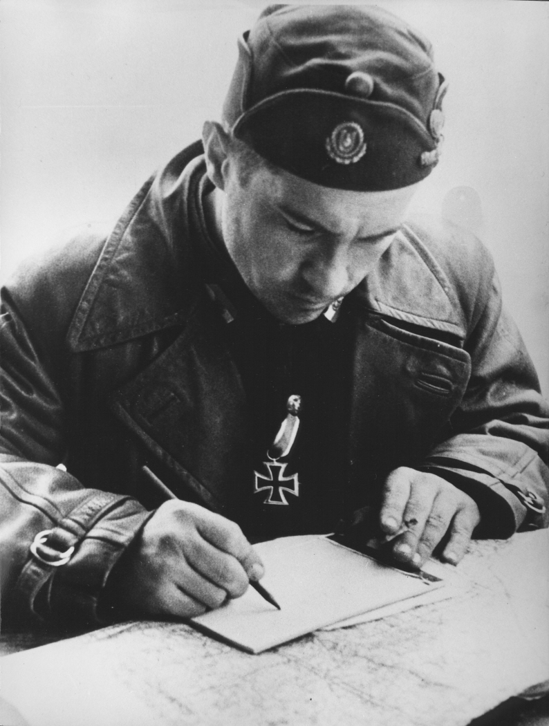 Ustaše Colonel Vjekoslav (Maks) Luburić signs a document.